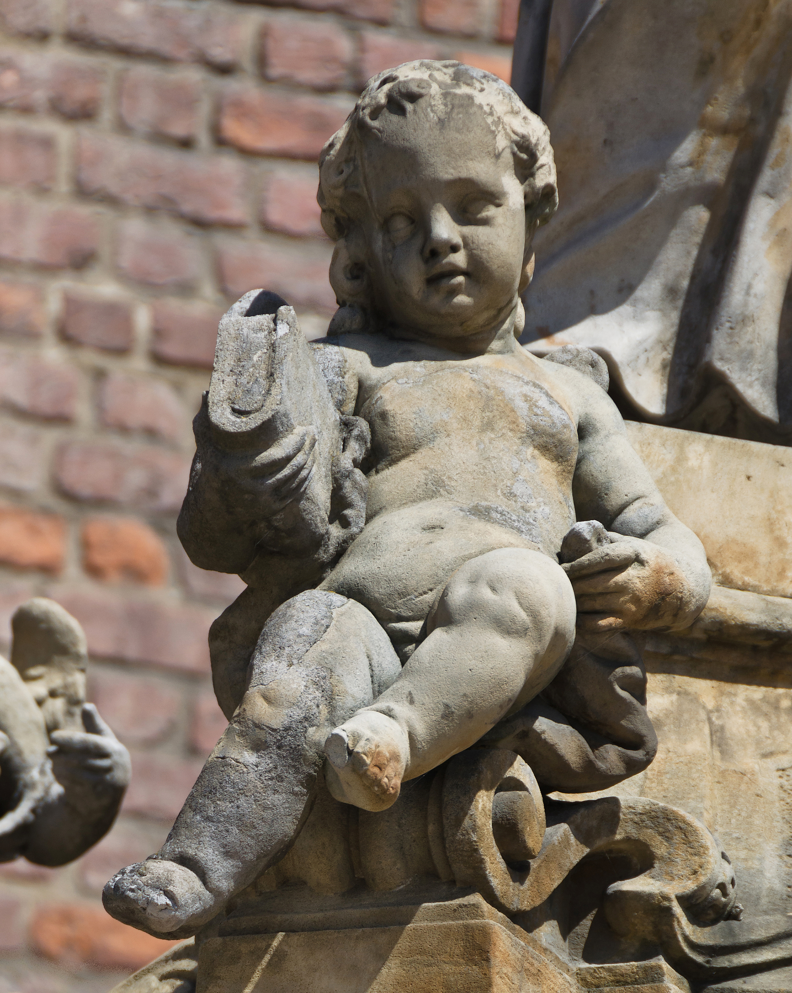 Saints James and Agnes Basilica in Nysa, statue of St. John of Nepomuk, putto